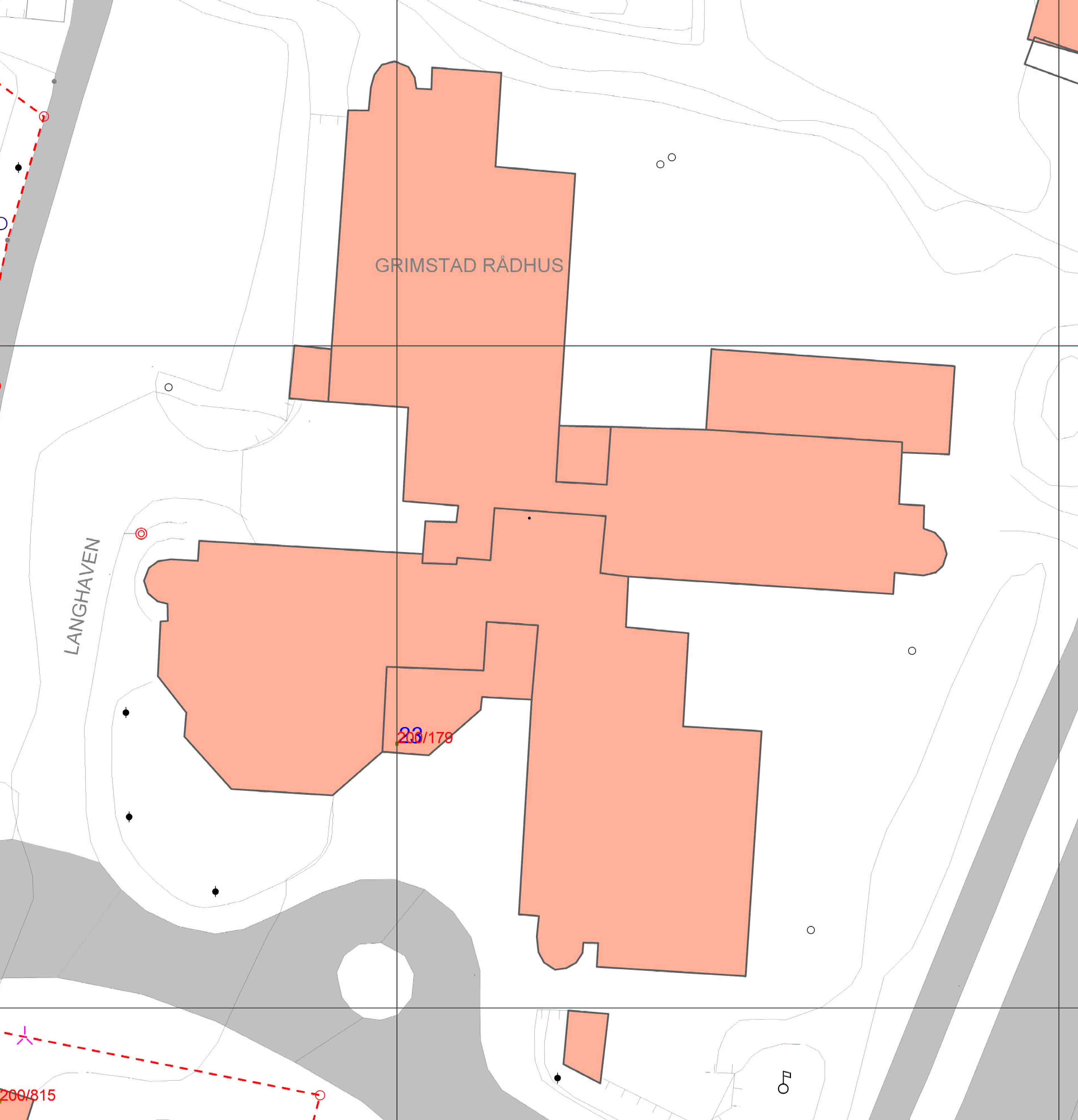 Picture from a vector-map, converted to raster by converting to jpg.